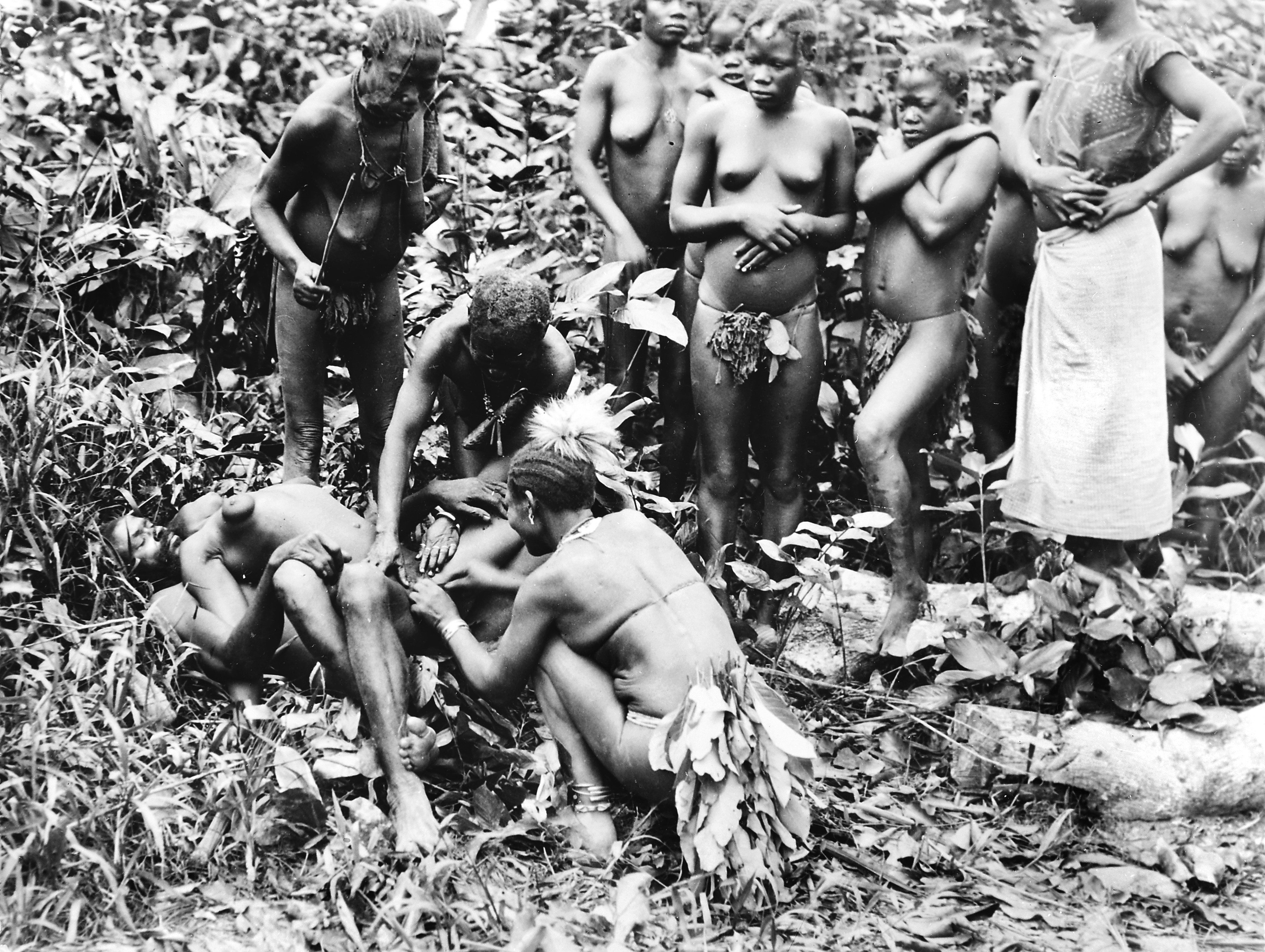 Excision operation being performed on a Mbakwa-Manja girl.